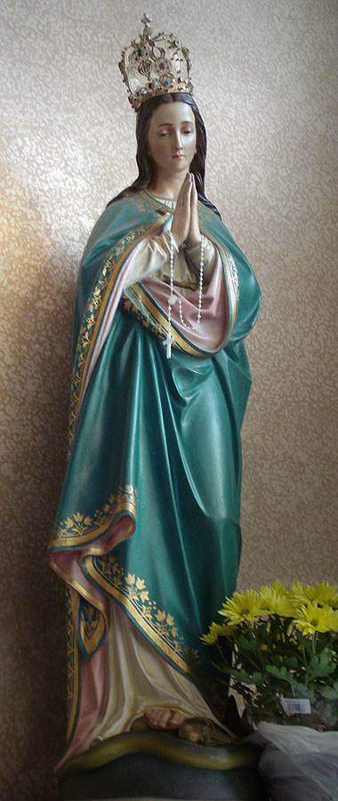 Immaculate Conception, in Chapel Nosso Senhor dos Passos, Santa Casa de Misericórdia of Porto Alegre, Brazil. Beginning of the XXth century, unknown author.